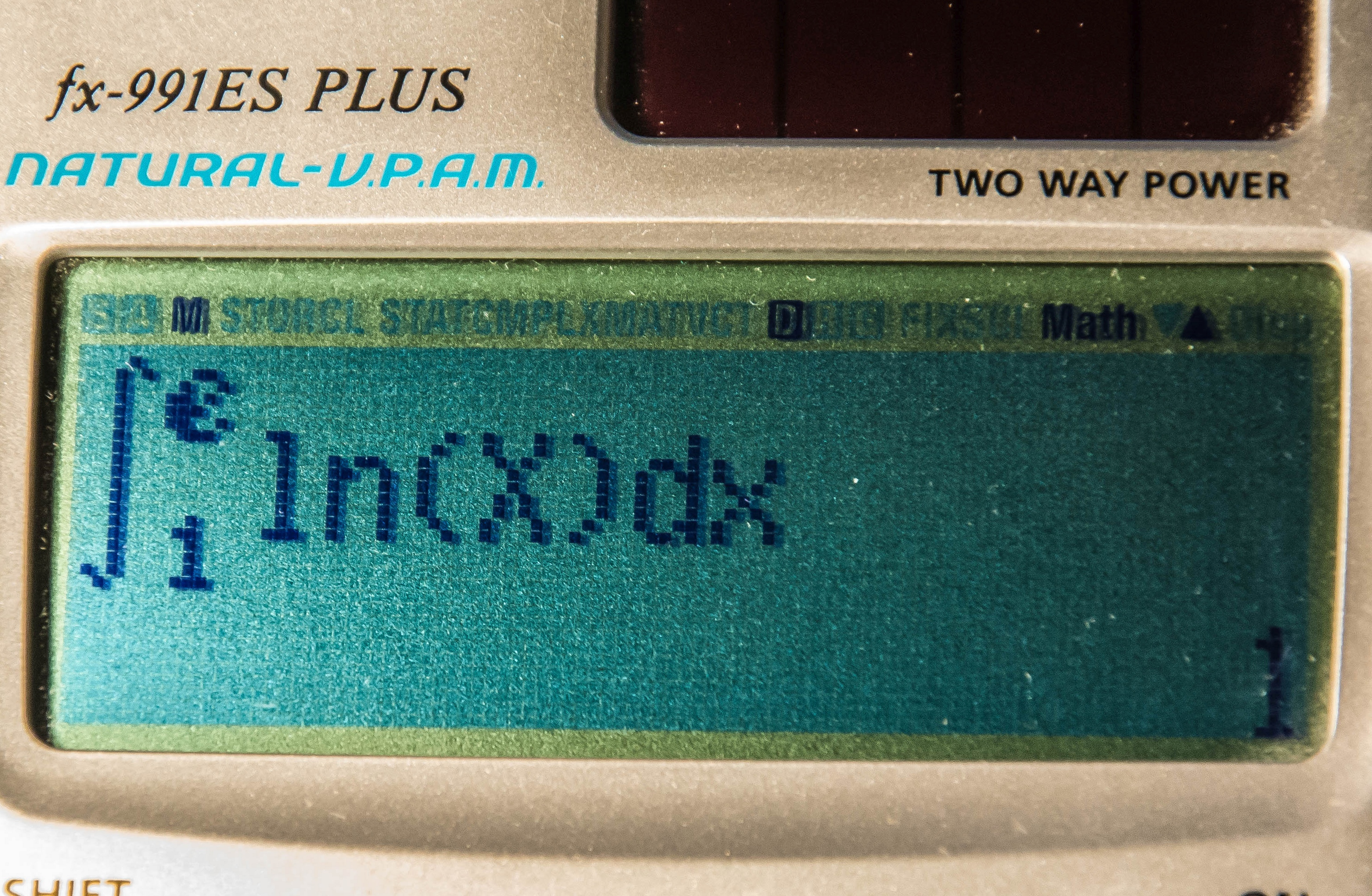 Setting down an integral using scientific calculator.